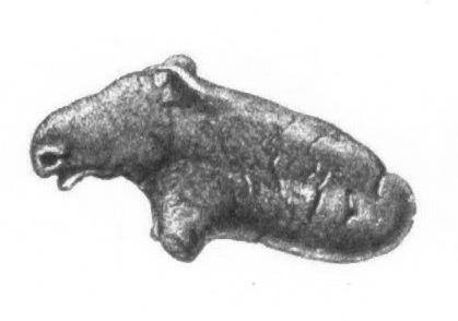 A characteristic moose figurine, from Åloppe, Enköpings kommun, Uppland, Uppland, Sweden